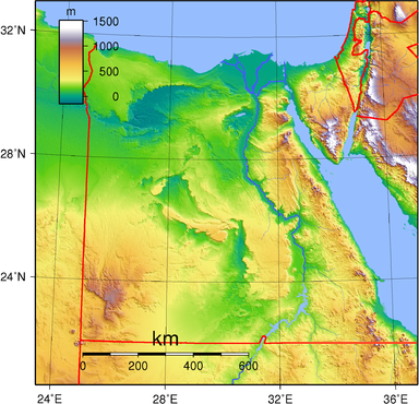 Topographic map of Egypt. Created with GMT from SRTM data.